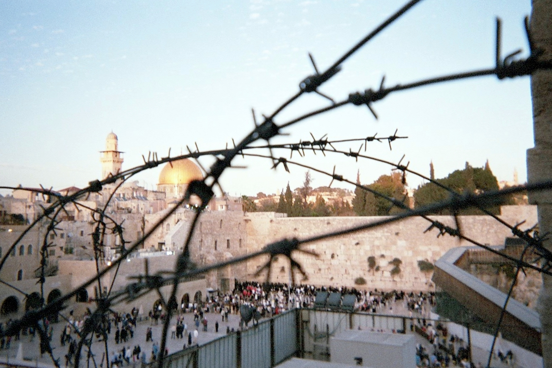 Old Jerusalem Western Wall barbed wire 2. Accueil du Shabbat au Kotel.